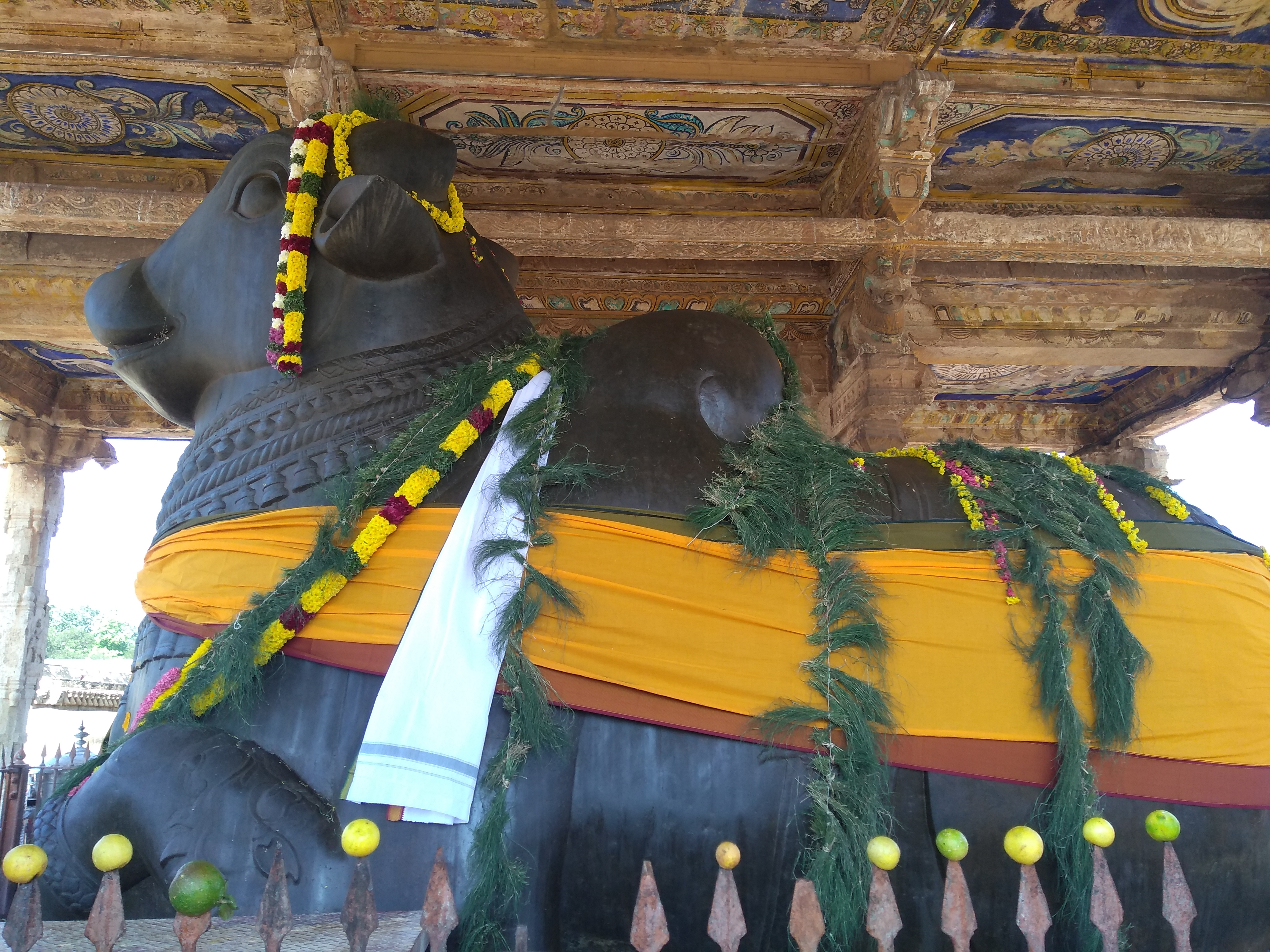 Decorated Nandhi at Thanjavur big temple